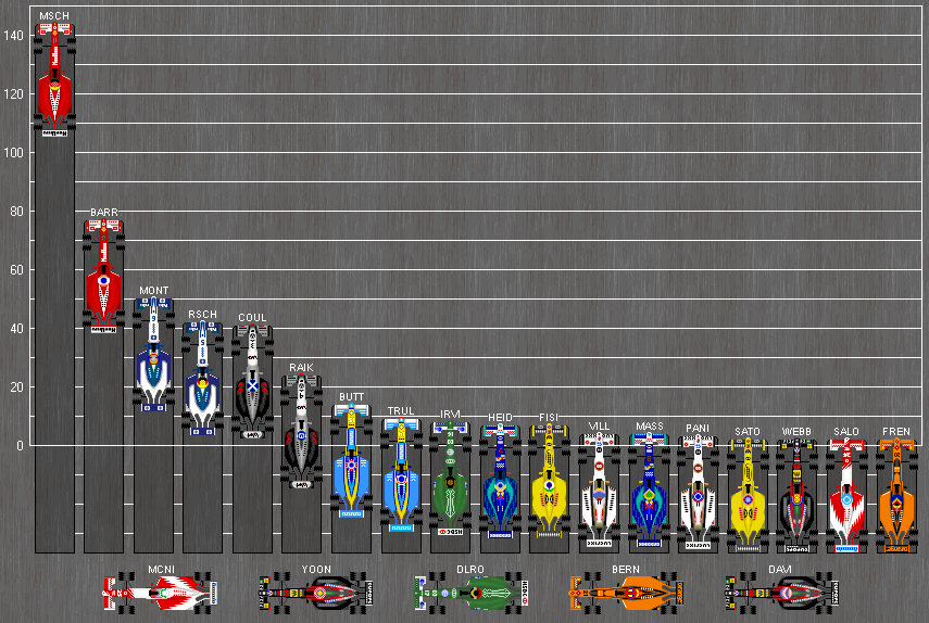 chart of final standings of 2002 Formula One season